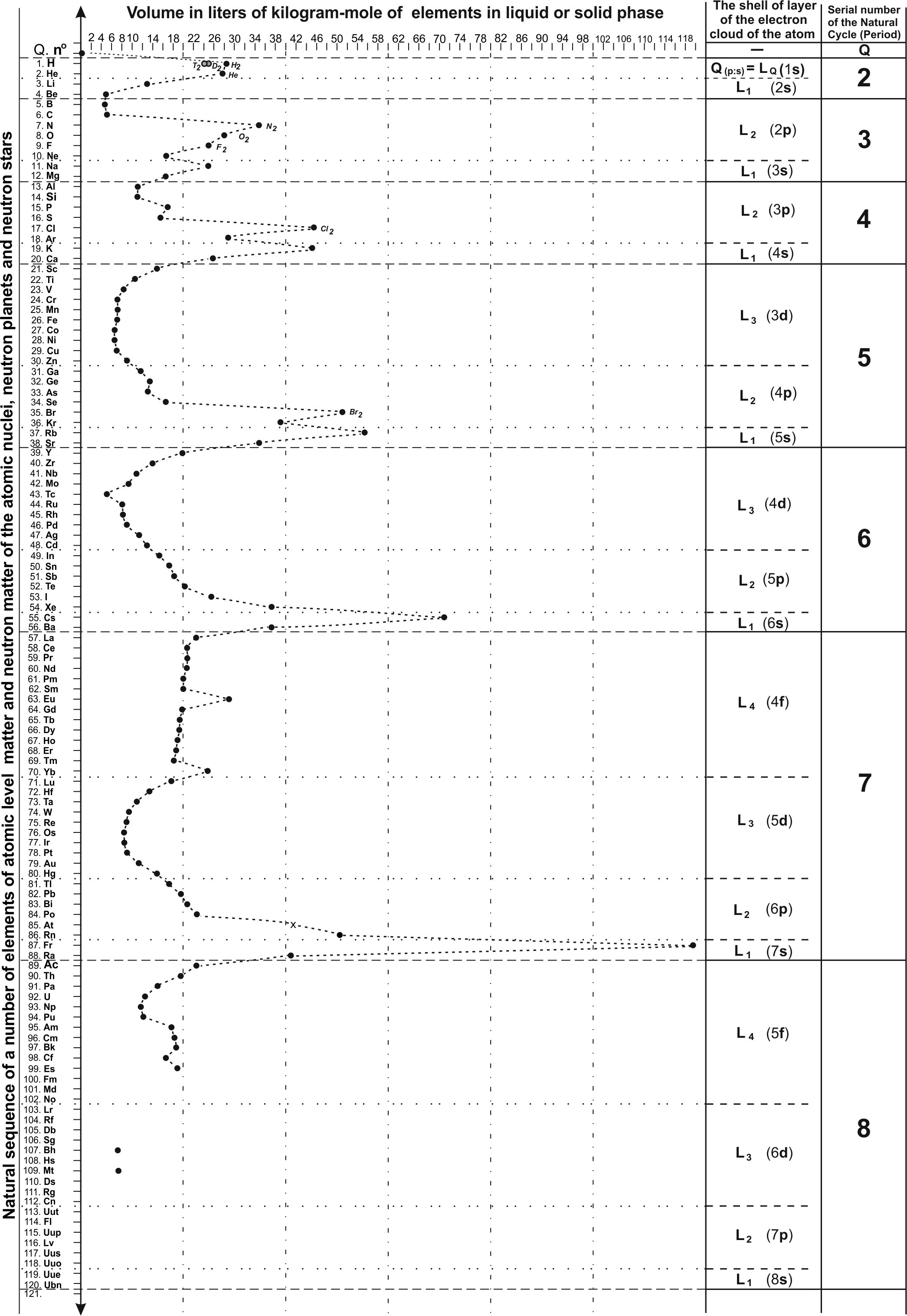 Graphical display of molar volumes of liquid and solid phase of elements